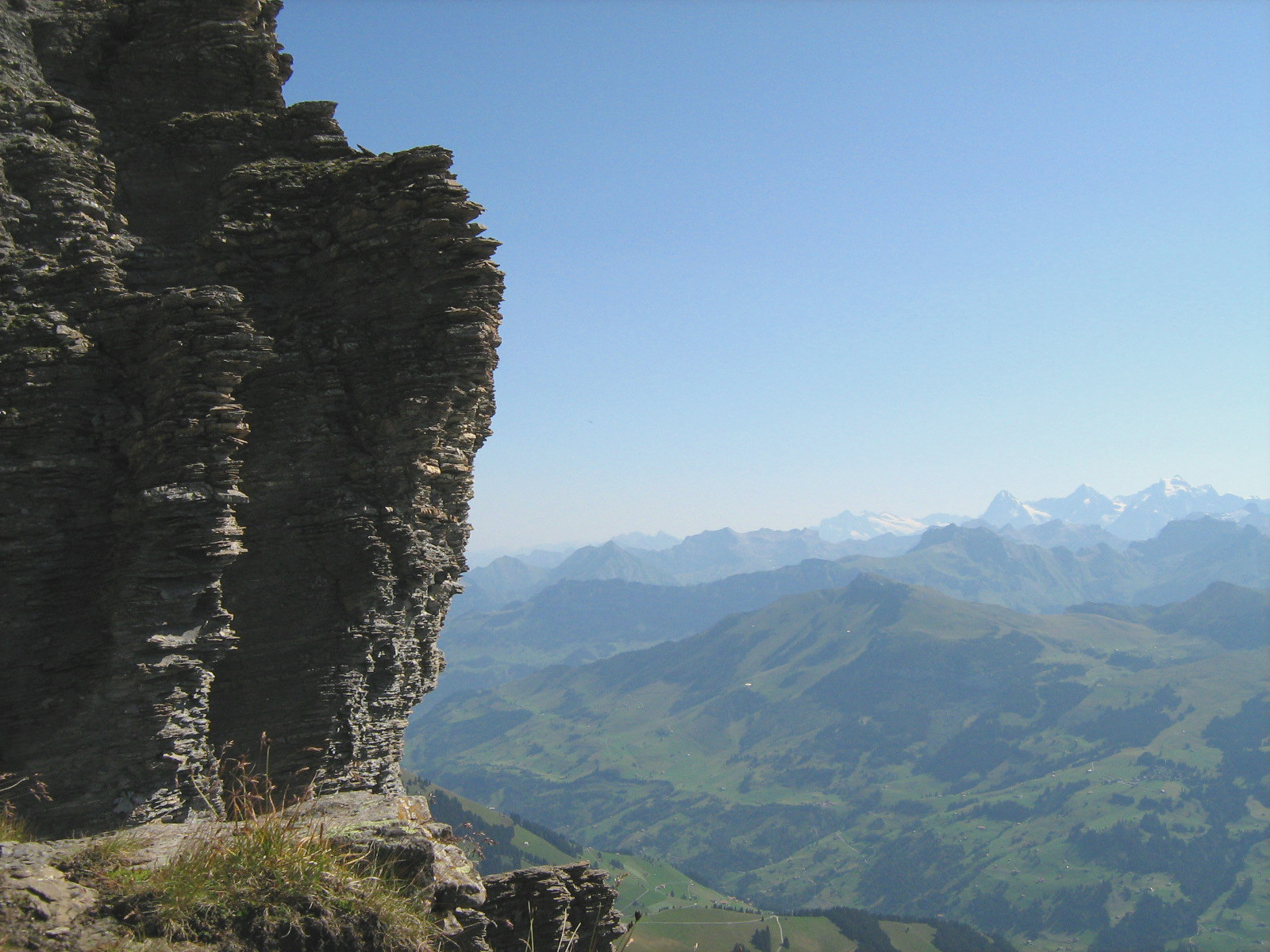 Uitzicht tijdens de klim naar de top van de Gsür